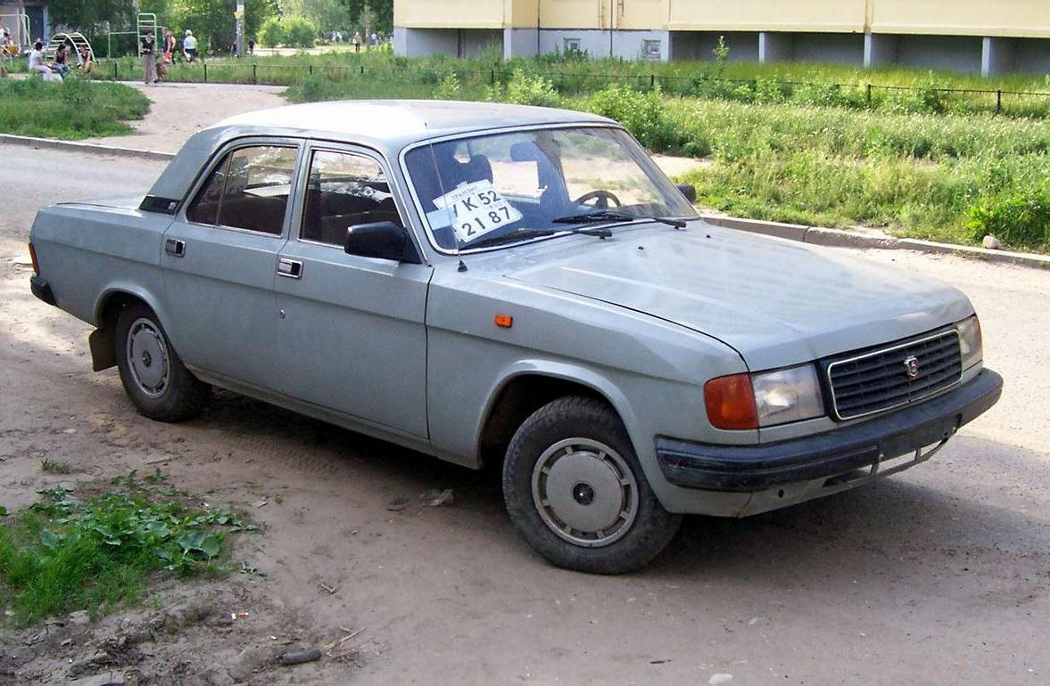 GAZ-31029. Front part. Photo by Stanislav Alexeyev, June 2007. No (C)